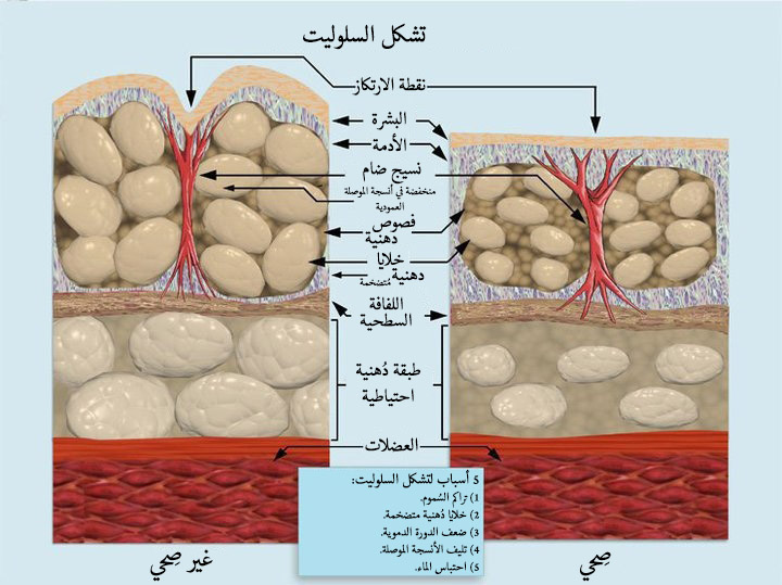 The formation of cellulite and five possible causes.